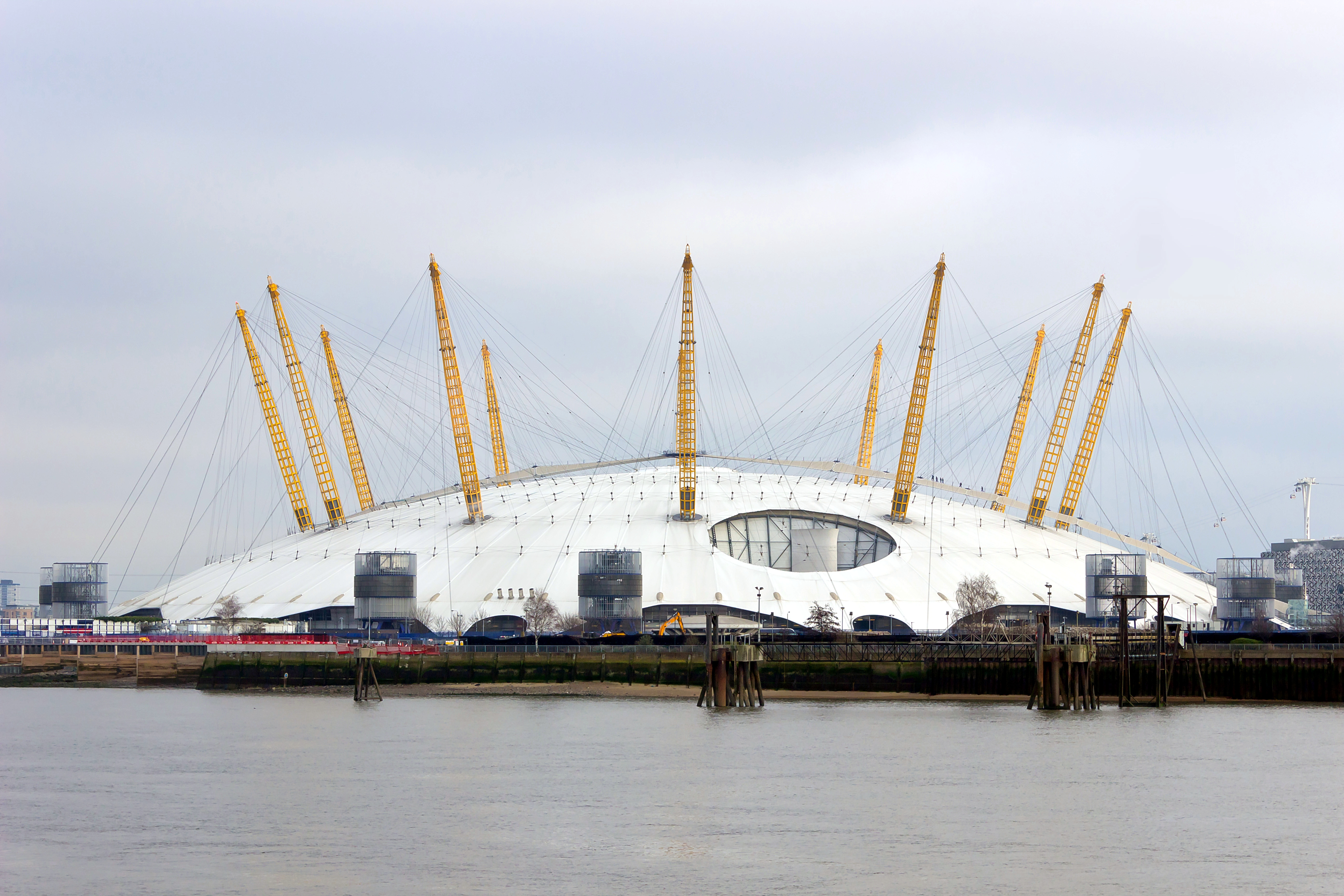 The O2 Arena, view from S W India Dock Entrance